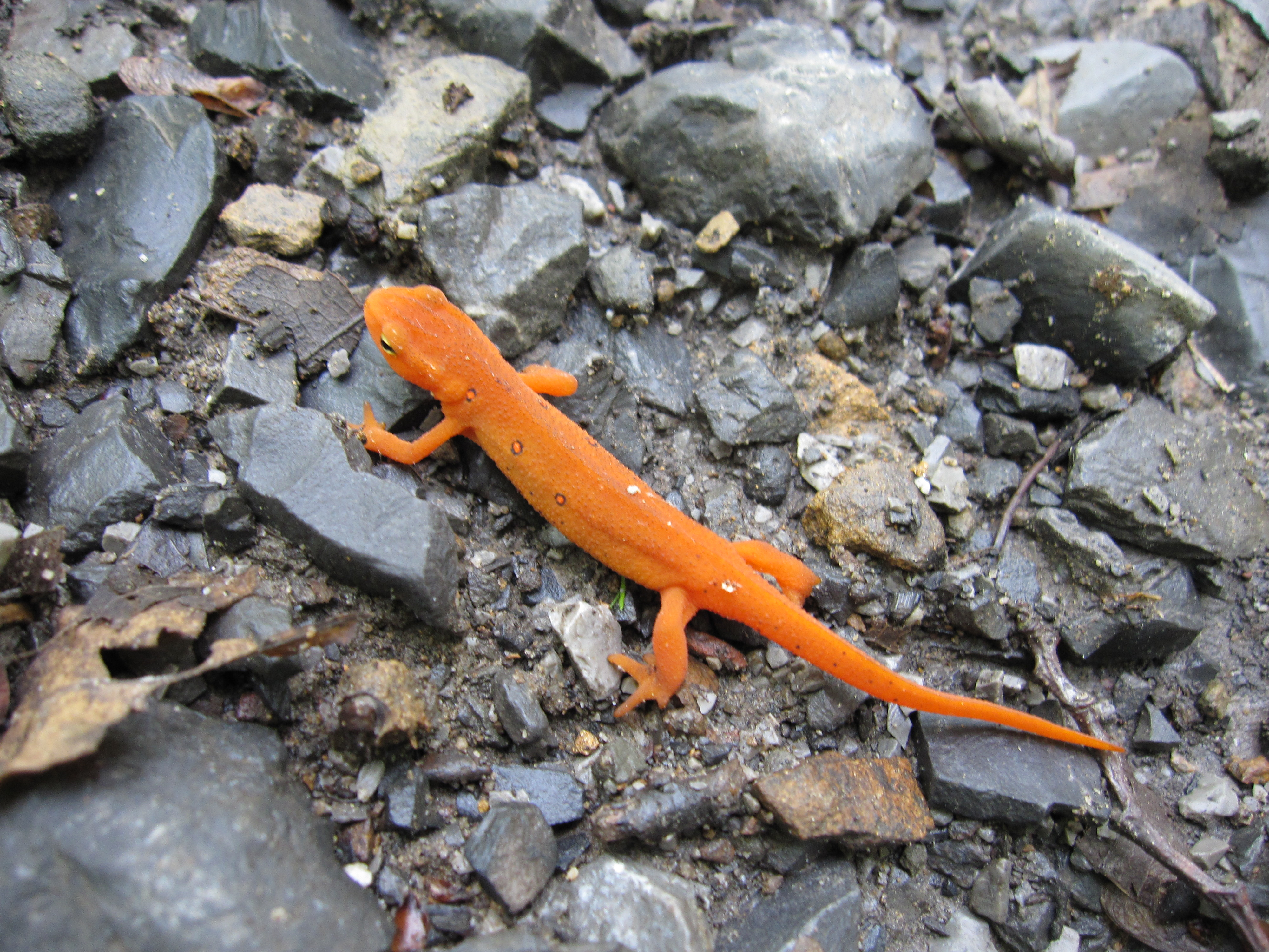 Eastern Newt Notophthalmus viridescens, Sproul State Forest, Renovo, Pennsylvania, USA.